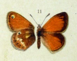 Coenonympha corinna